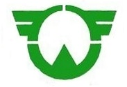 Shibayama Chiba chapter